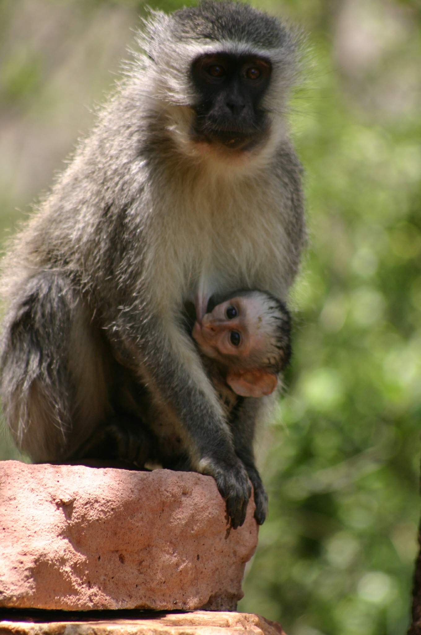 Female Cercopithecus pygerythrus with young, Magaliesberg, South Africa